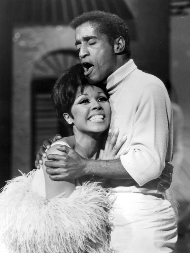 Photo of actress Diahann Carroll and Sammy Davis, Jr. from the television program The Hollywood Palace.